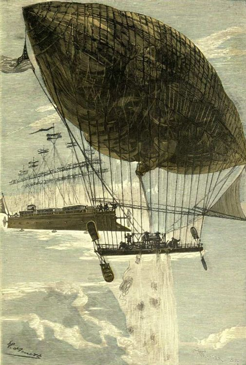 An illustration from Jules Verne's novel "Robur the Conqueror" drawn by Léon Benett.